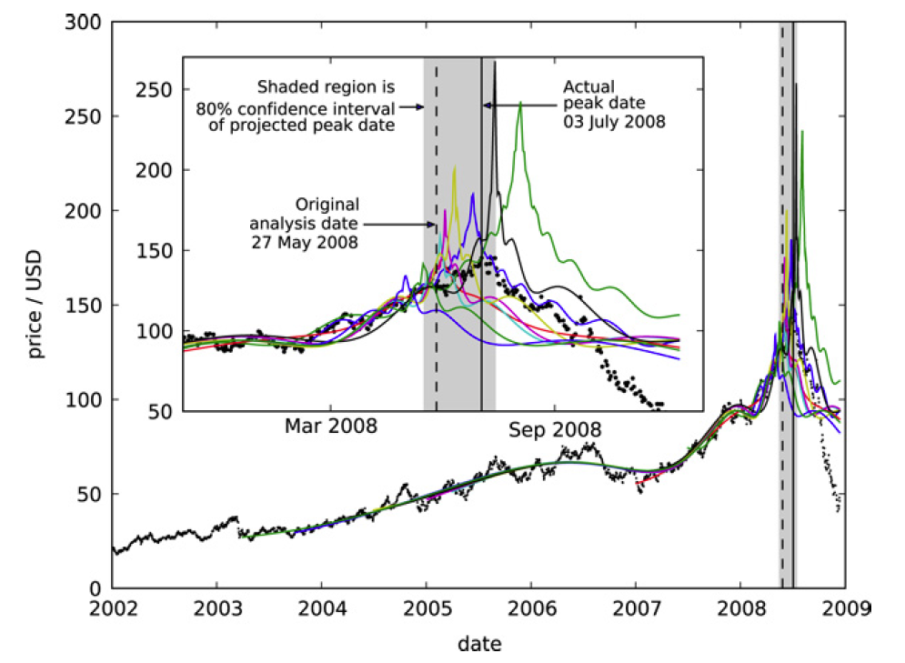 Modeling and prediction of a bubble (super-exponential growth) with the log-periodic power law, as can be found in Sornette, Didier, Ryan Woodard, and Wei-Xing Zhou. "The 2006–2008 oil bubble: Evidence of speculation, and prediction." Physica A: Statistical Mechanics and its Applications 388.8 (2009): 1571-1576.